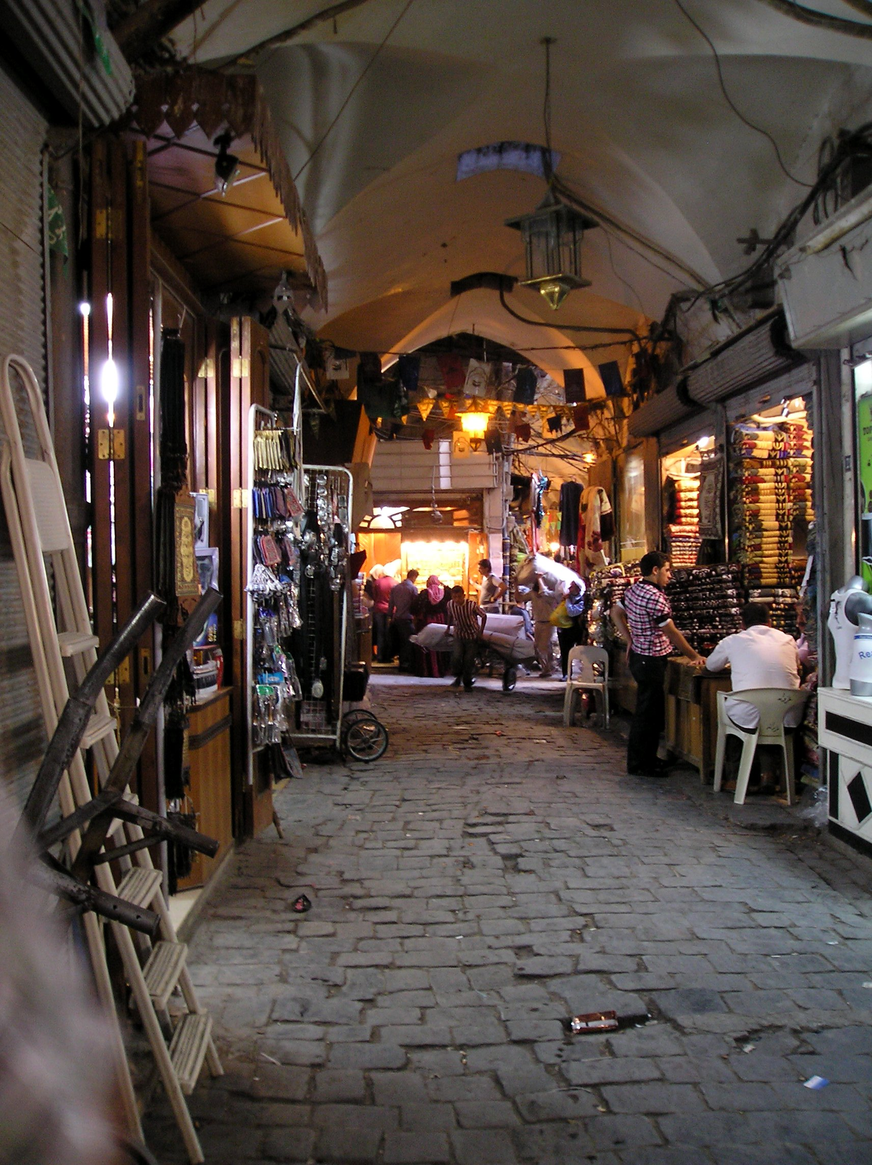 The suq, Aleppo Aleppo